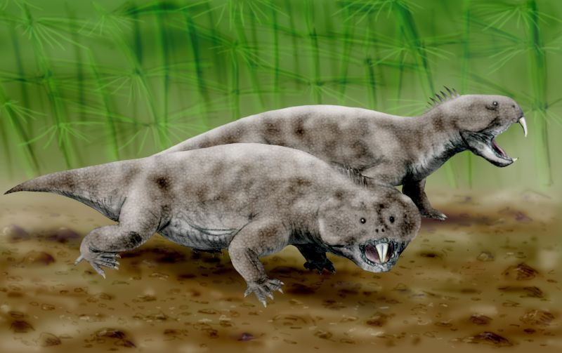 Hyperodapedon huxleyi(syn. Paradapedon), a rhynchosaur from the late Triassic of India. Digital.